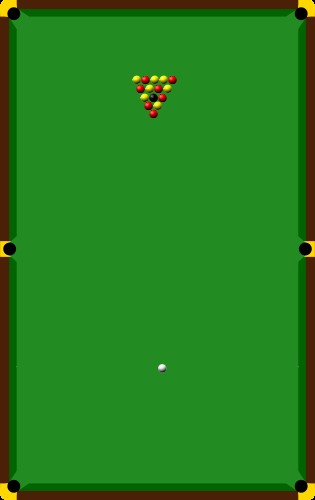 Diagram of start position of balls playing the billiards game Blackball pool.